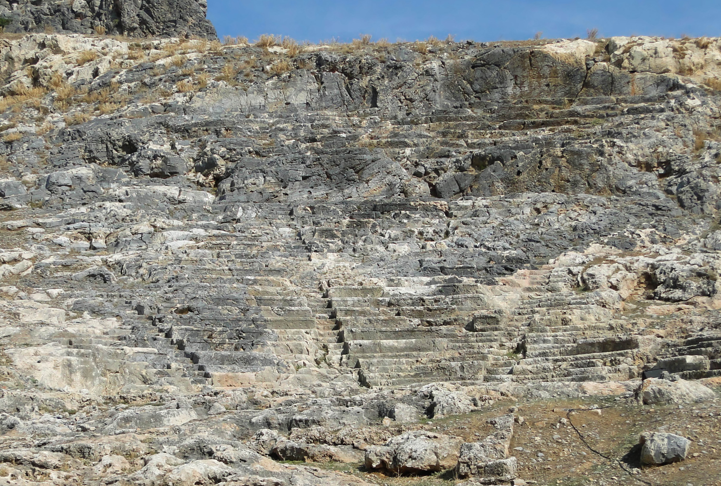 Ancient Greek theatre in Lindos, Rhodes, Greece